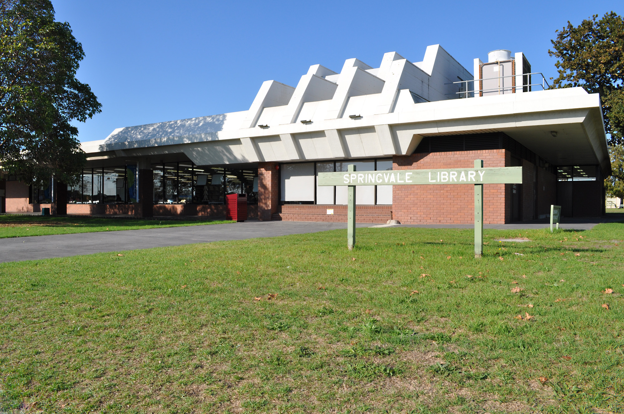 Springvale Library. Springvale, Victoria, Australia.